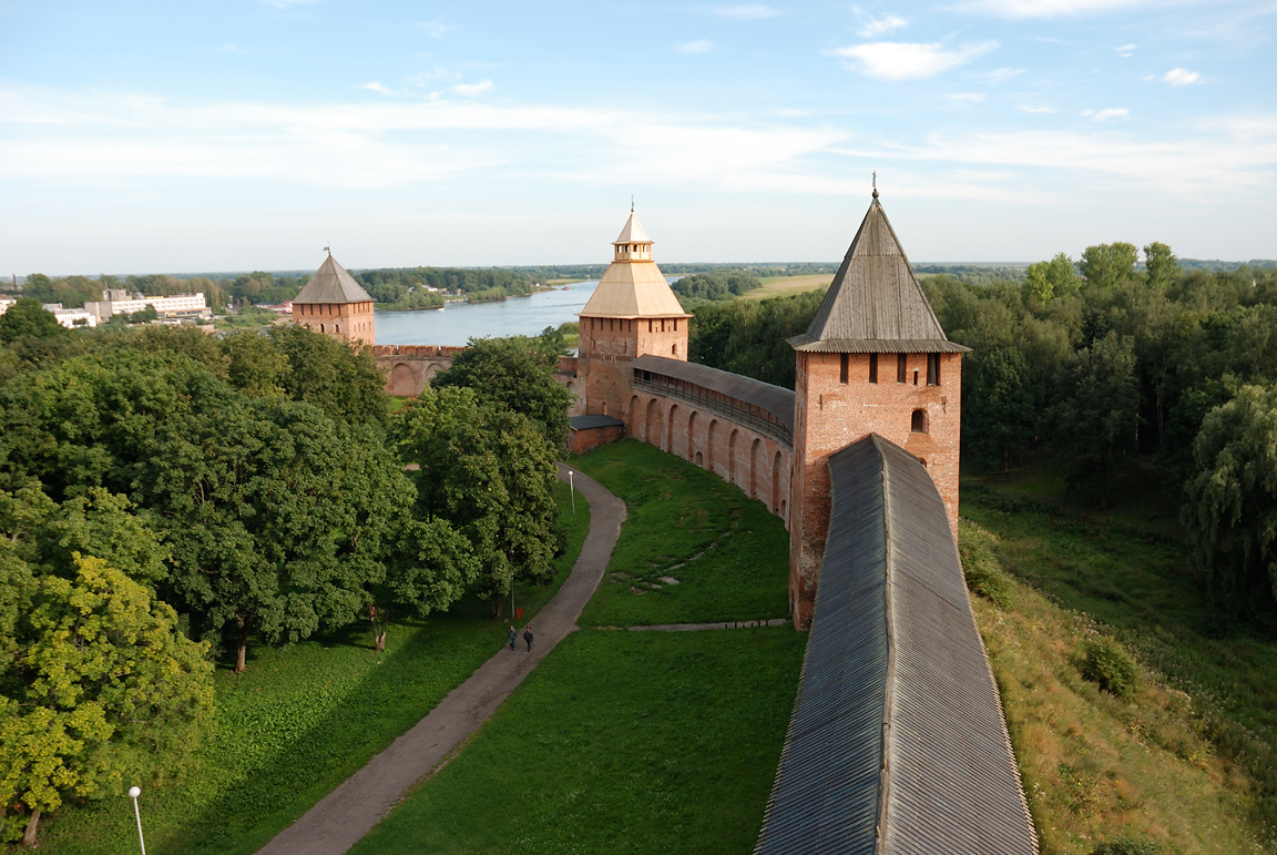 View south-east from the Kokui tower of the Novgorod kremlin